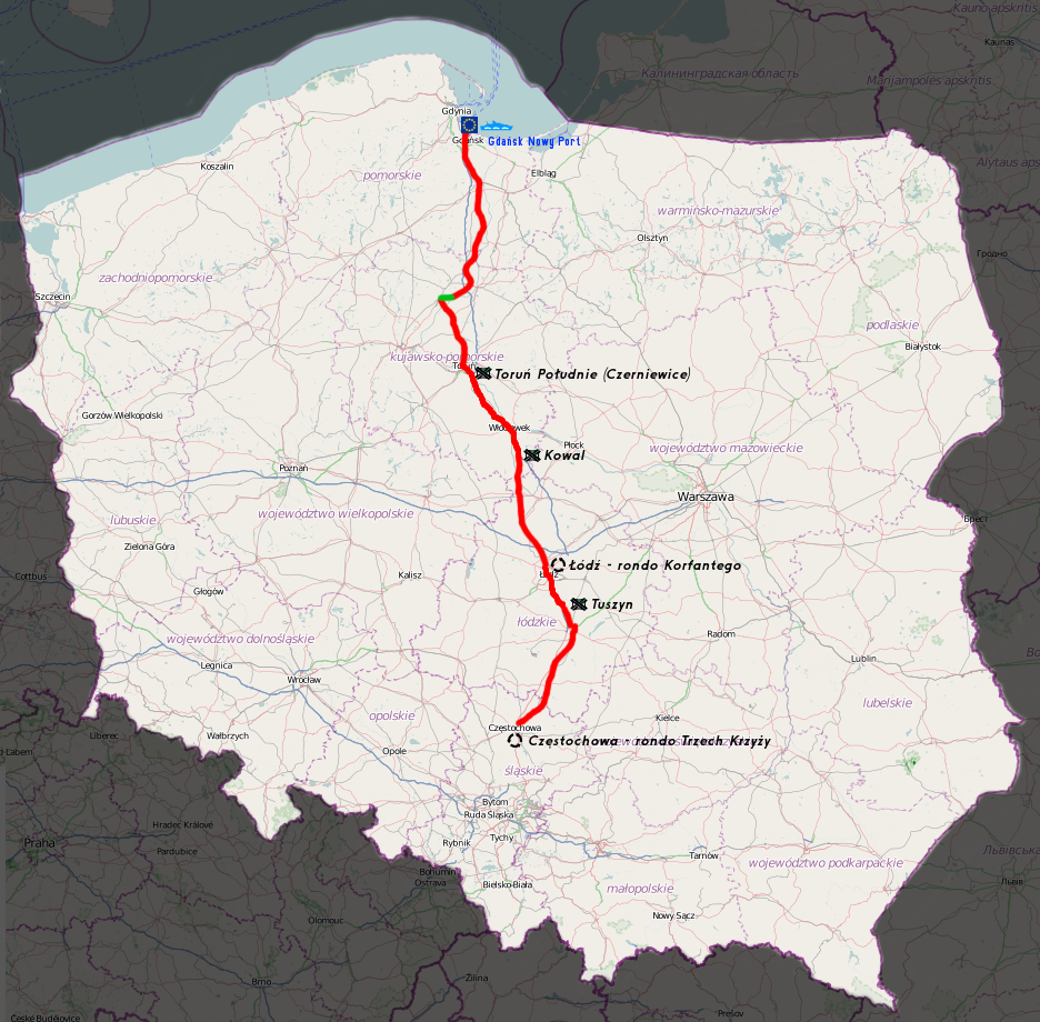 Map of Polish national road 91. Background from OpenStreetMap. Green stretch is a part of Świecie bypass (with expressway S5). This map is in PNG format, because export a map from OSM with this zoom scale to SVG format produces over 15 MB file, which is difficult to edit ("memory eating" by graphics software).